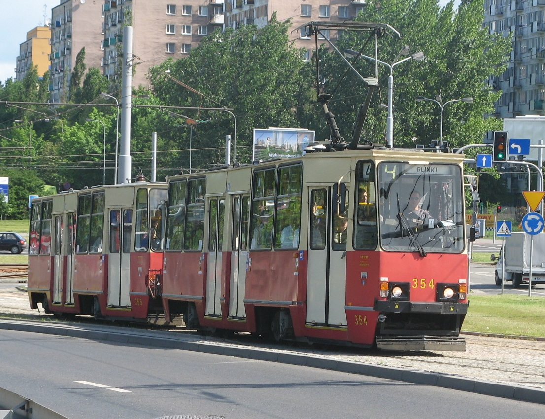 Ordinary tram Konstal 805Na (#354) in Bydgoszcz, Poland. Year build 1988. MZK Bydgoszcz company.